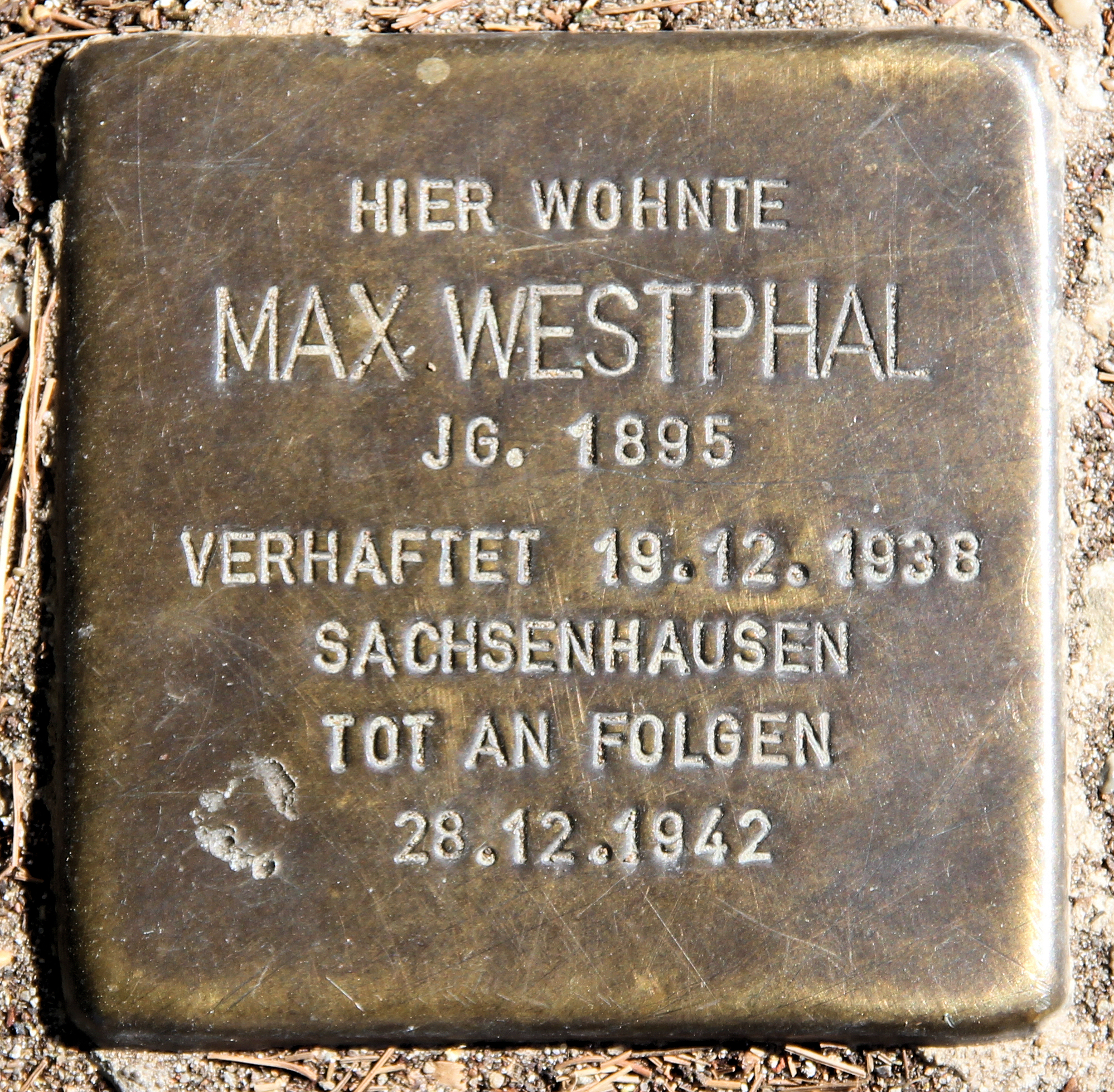 "stumbling block", Max Westphal, Paradestraße 22, Berlin-Tempelhof, Germany Koordinate:52°28′42″N 13°22′56″E / 52.47833°N 13.38222°E